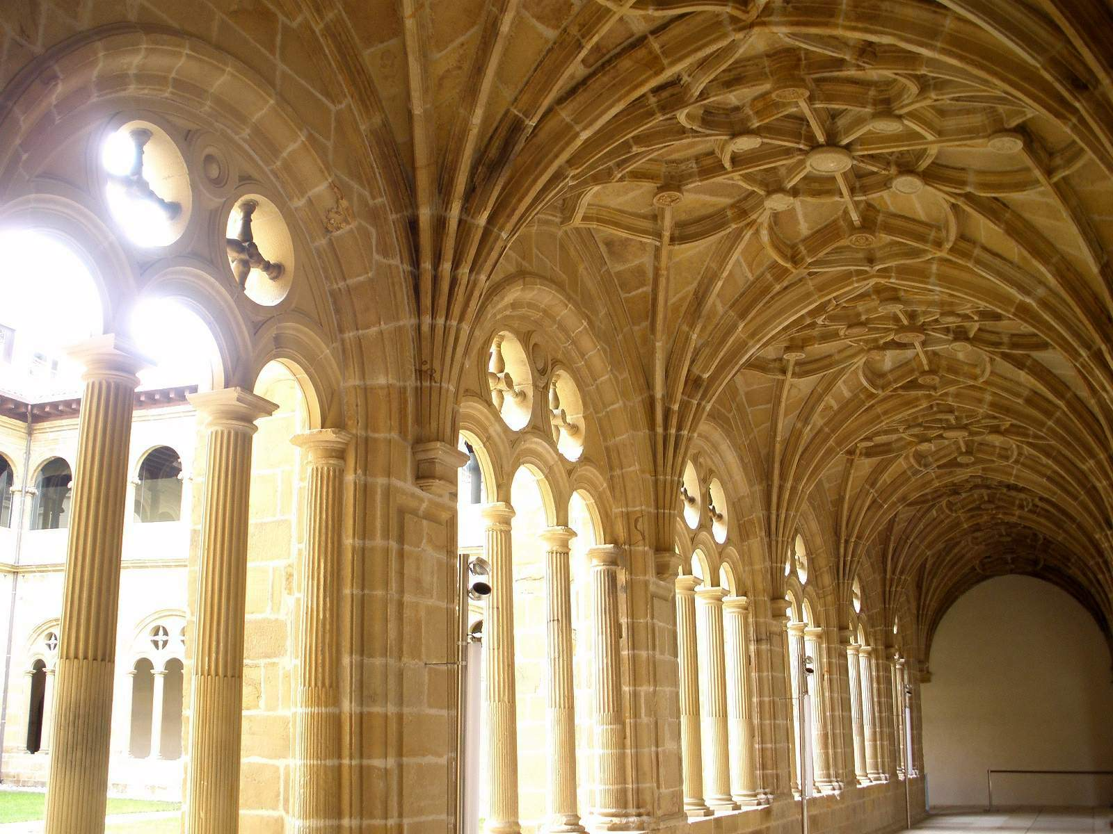 Claustro del Monasterio y Museo de San Telmo (San Sebastián)